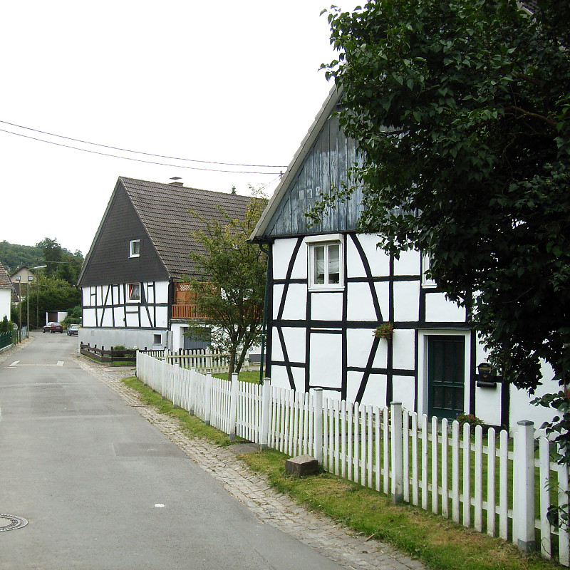 scene at Hesselbach, district of Gummersbach, North Rhine-Westphalia, Germany